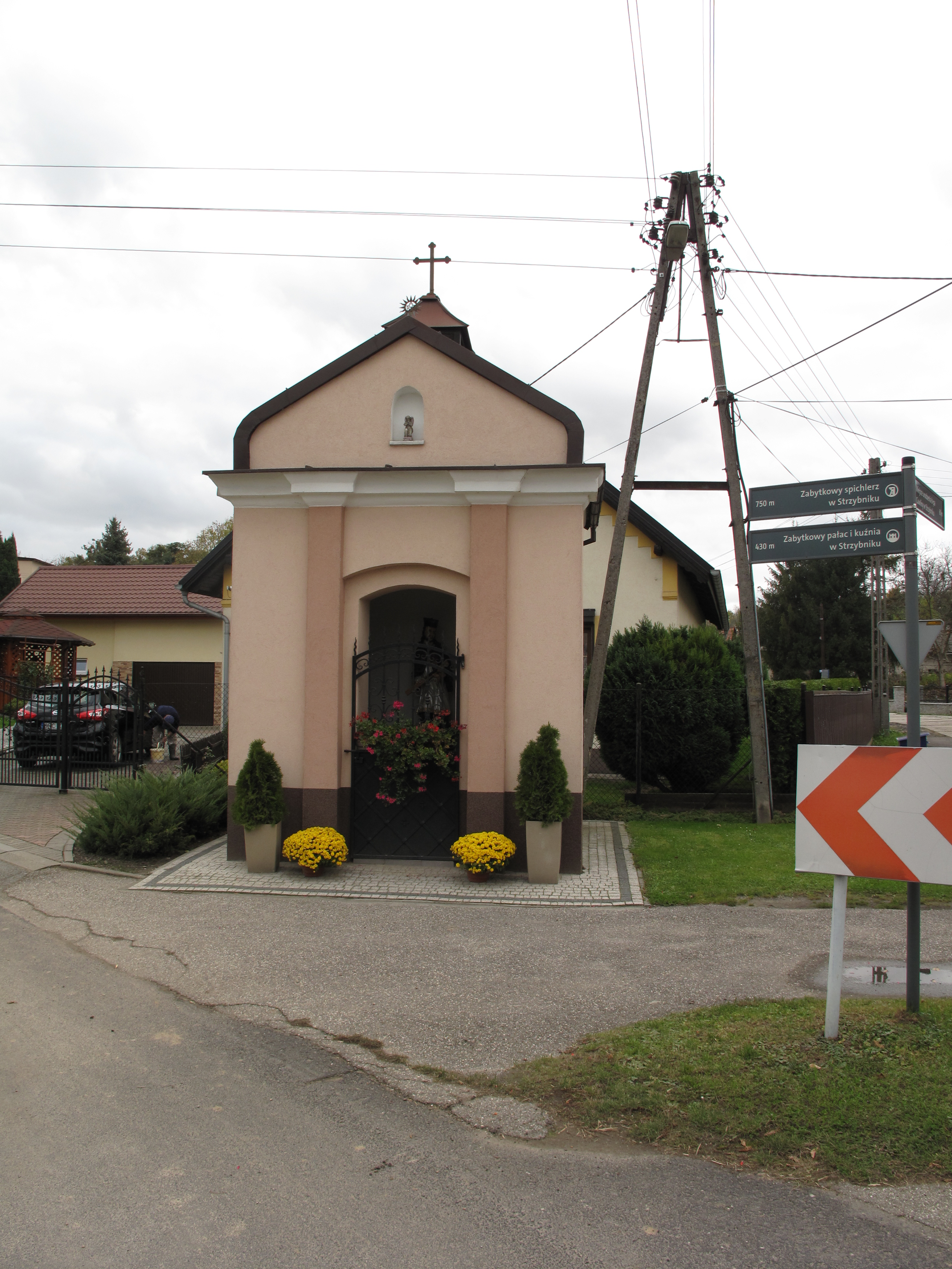 Strzybnik. Racibórz County, Poland.